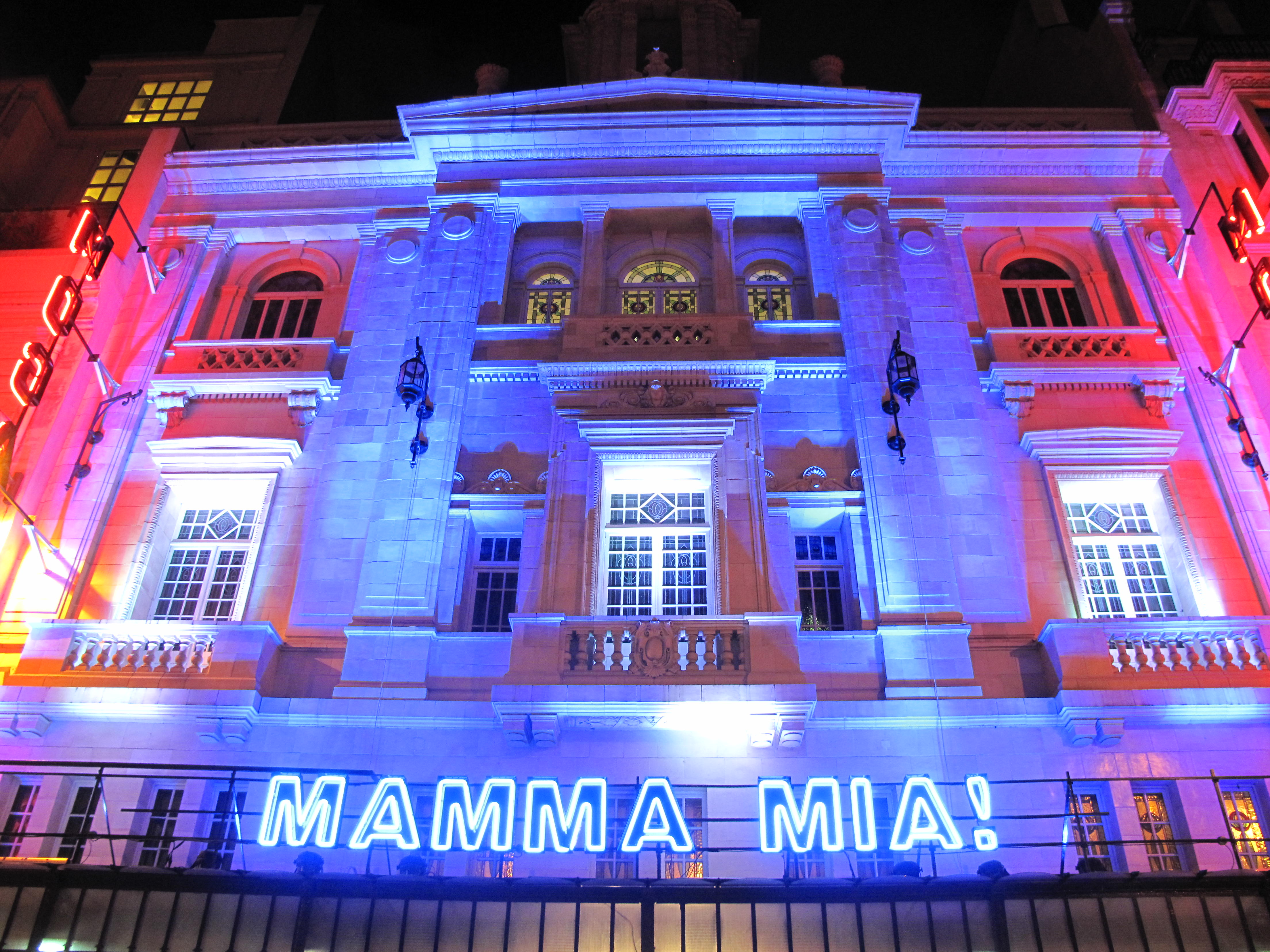 Lighting ensign of Mamma Mia at the theatre Mogador in Paris.